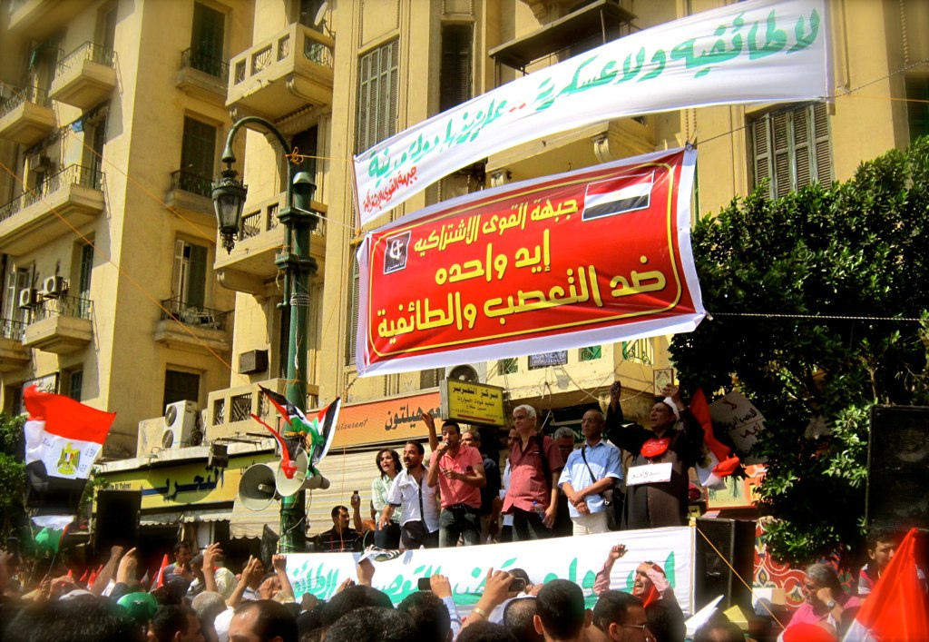 one hand against sectarianism & discrimination